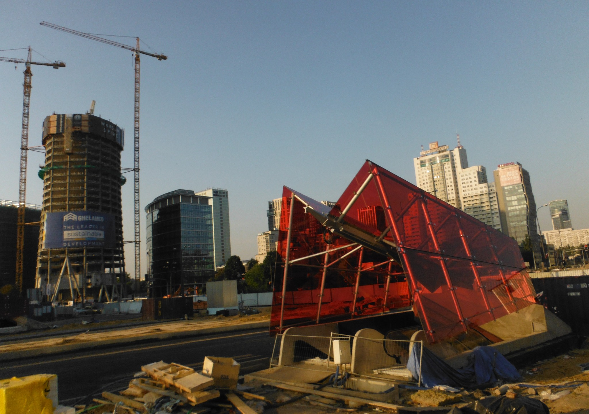 Rondo Daszyńskiego metro station (under construction) in Warsaw (2nd of August 2014).